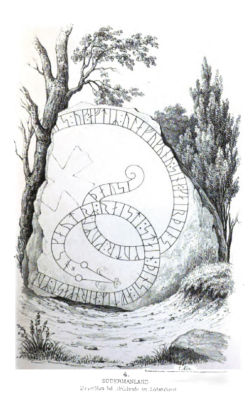 The runestone Sö 296. The inscription reads × oskautrR : raisti : stain : þinsi : aftiR * airnfast : mu...[uþur sin : sun * kuþi(k)]s : uk * aftiR : ulafu kunu : sina : kairþi : oskutr : kuml : þausi +. In English "Ásgautr raised this stone in memory of Ernfastr, his mother's brother, Gyðingr's son, and in memory of Ólôf his wife. Ásgautr made these monuments."